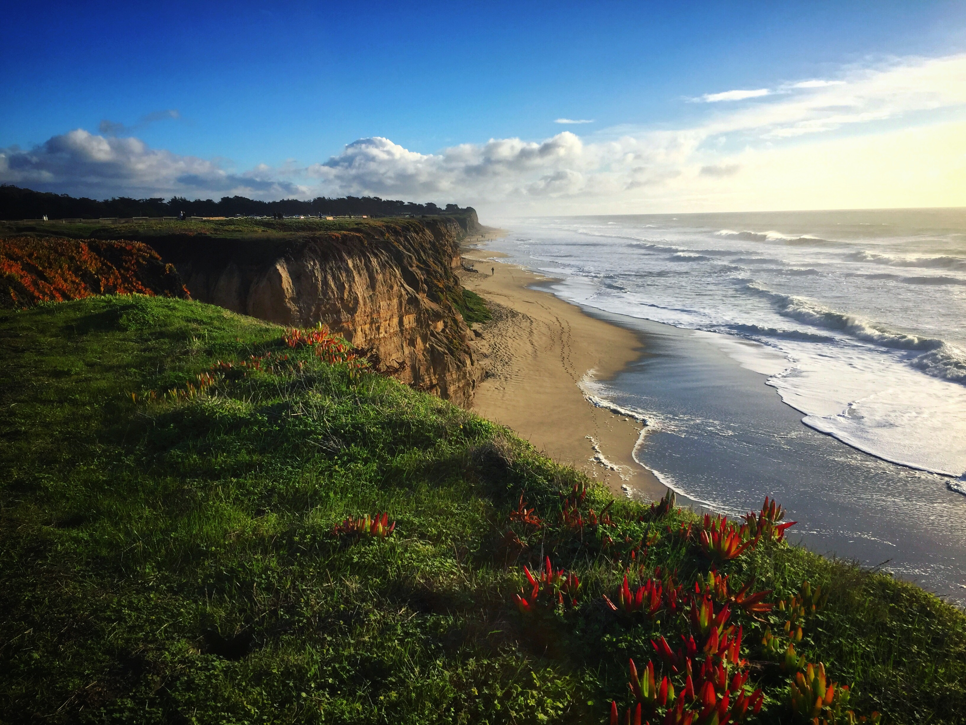 Red flowers and cliffs over the Pacific Ocean in Half Moon Bay, California, United States.